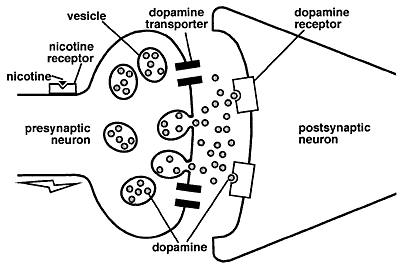 Figure 3.2: Nicotine binds to specific receptors on the presynaptic neuron. When nicotine binds to receptors at the cell body, it excites the neuron so that it fires more action potentials (electrical signals, represented by jagged shape in lower left of figure) that move toward the synapse, causing more dopamine release (not shown in figure). When nicotine binds to nicotine receptors at the nerve terminal, the amount of dopamine released in response to an action potential is increased.~NIH